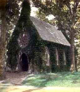 The Oak Hill Cemetery Chapel located in the Georgetown neighborhood of Washington, D.C.